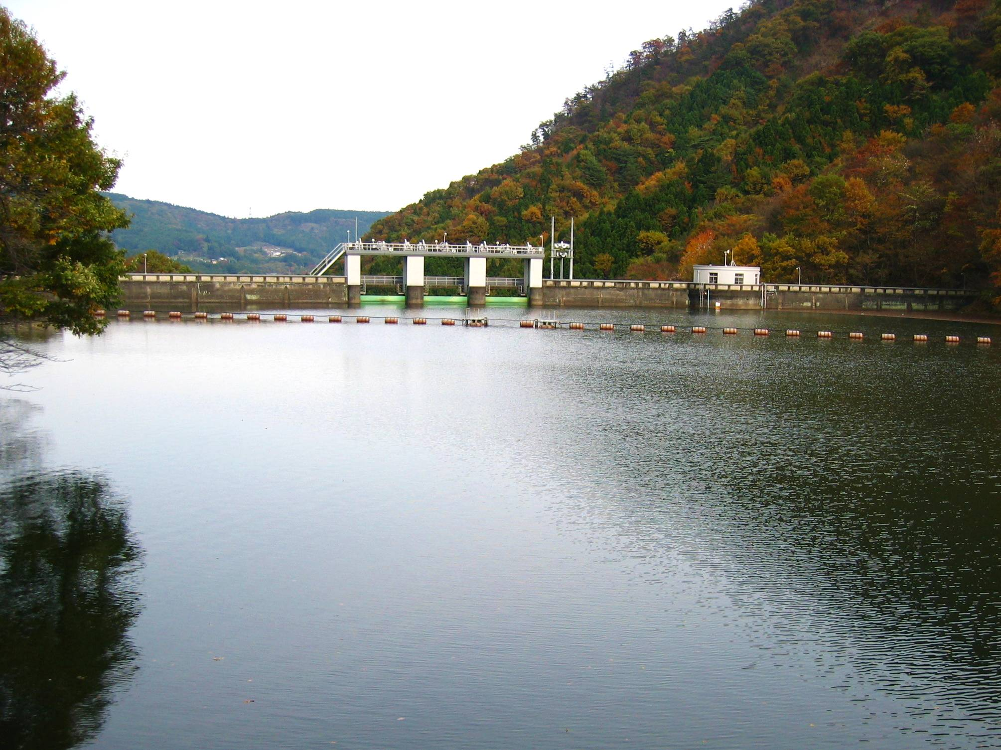 Nakagi Dam and lake (Lake Myōgiko).